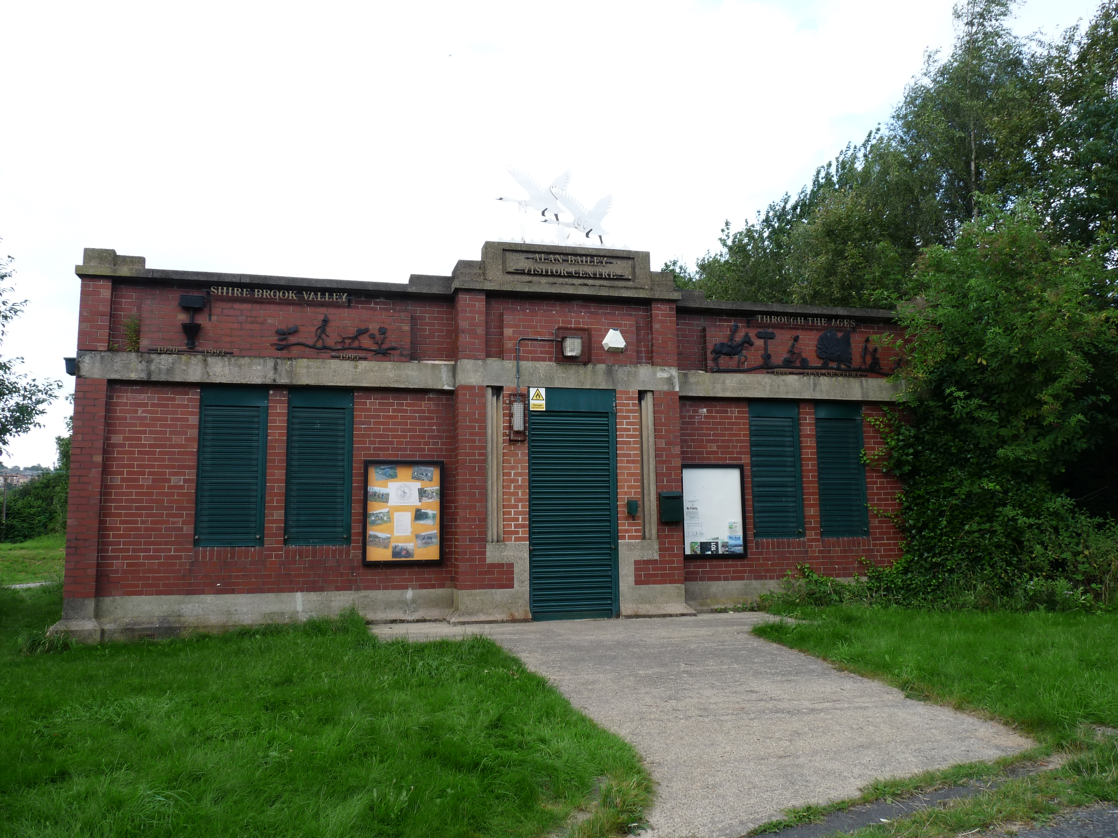 Shire Brook Valley Local Nature Reserve Visitors Center in Sheffield, England